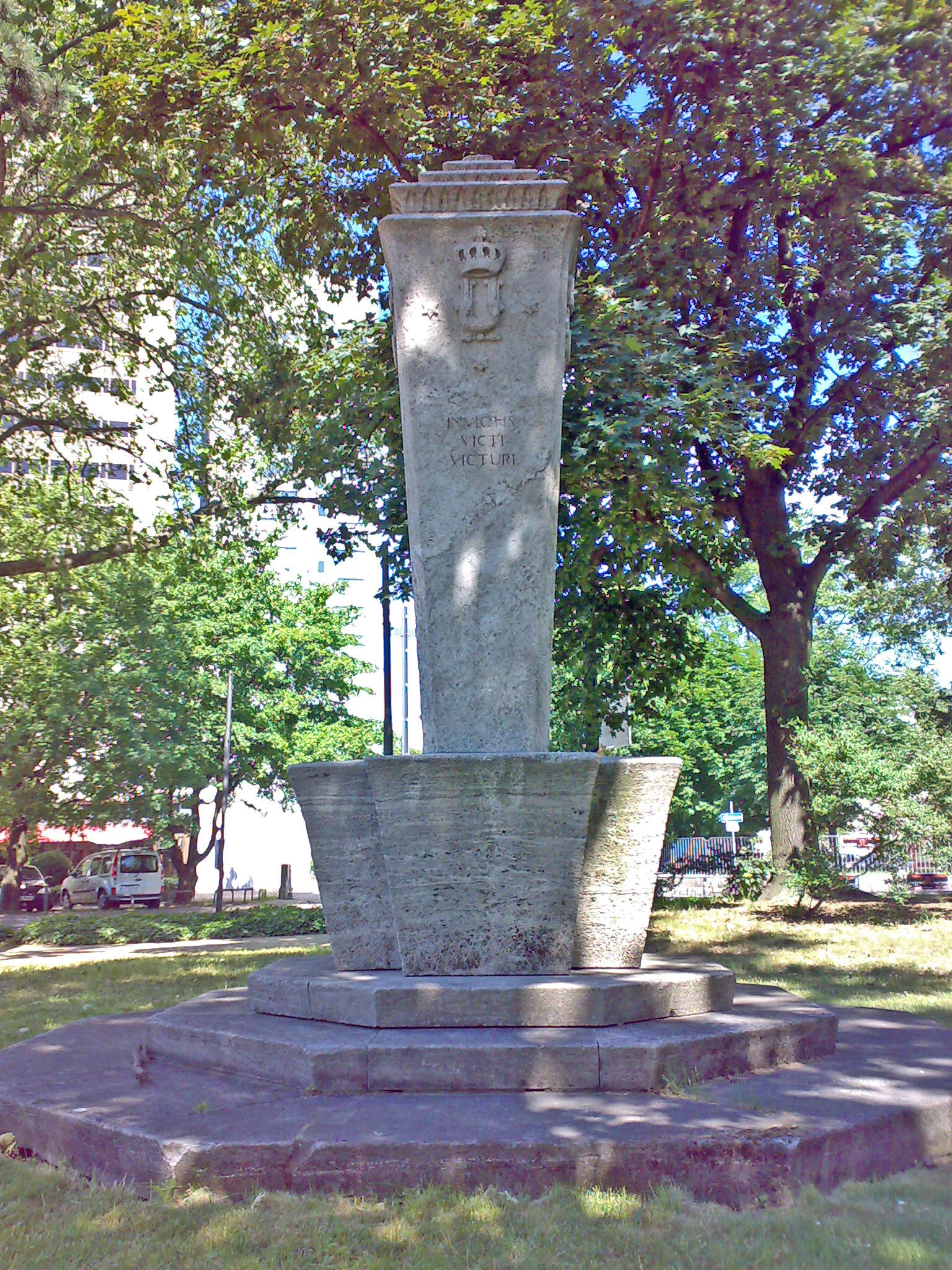 Memorial for the 13. Husarenregiment, Frankfurt am Main, Germany